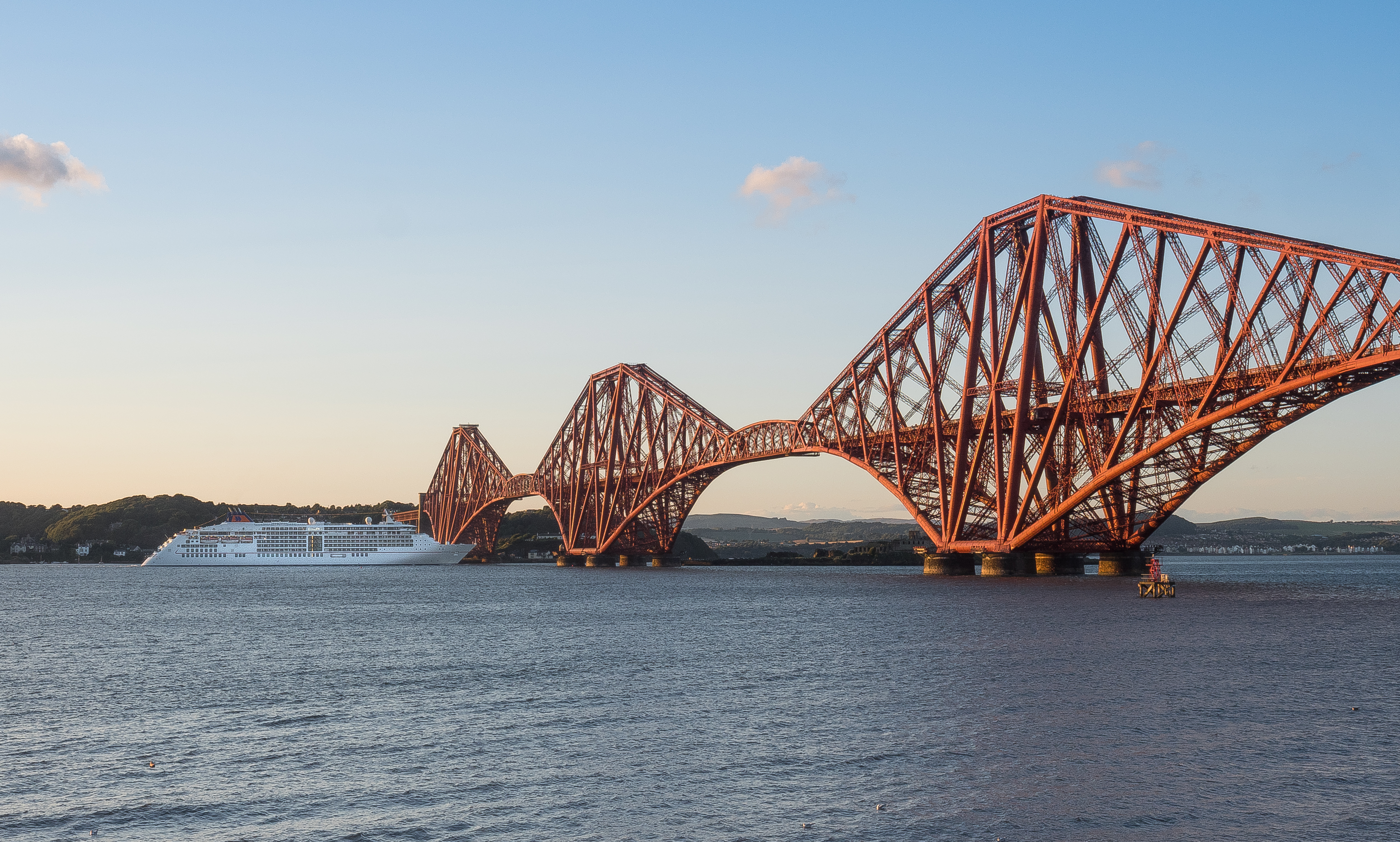 Cruiseship MS Europa 2 under the Forth Bridge, Firth of Forth, Scotland